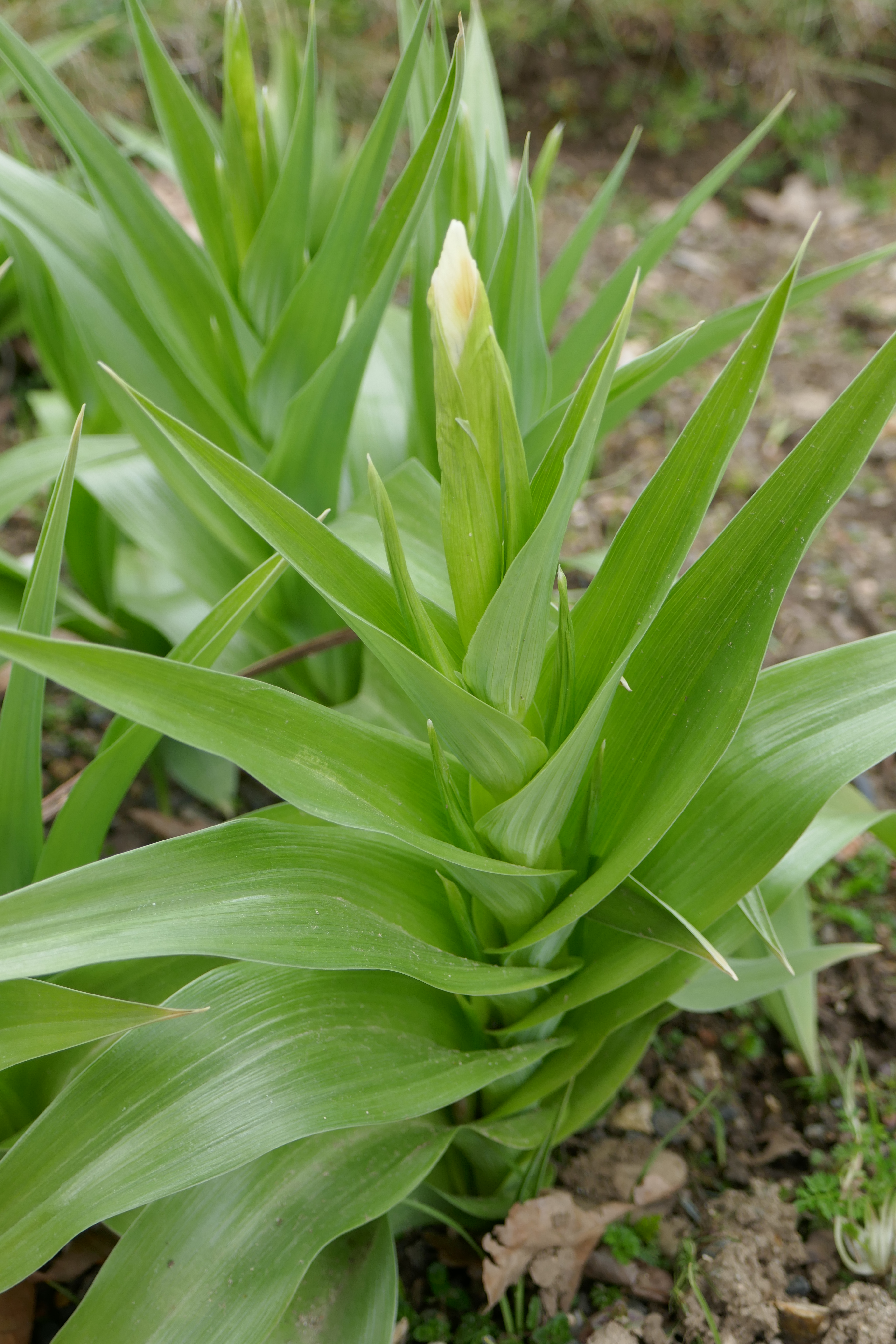 Iris magnifica Vved., in the "Botanic school" part of Jardin des Plantes de Paris, France, Europe.